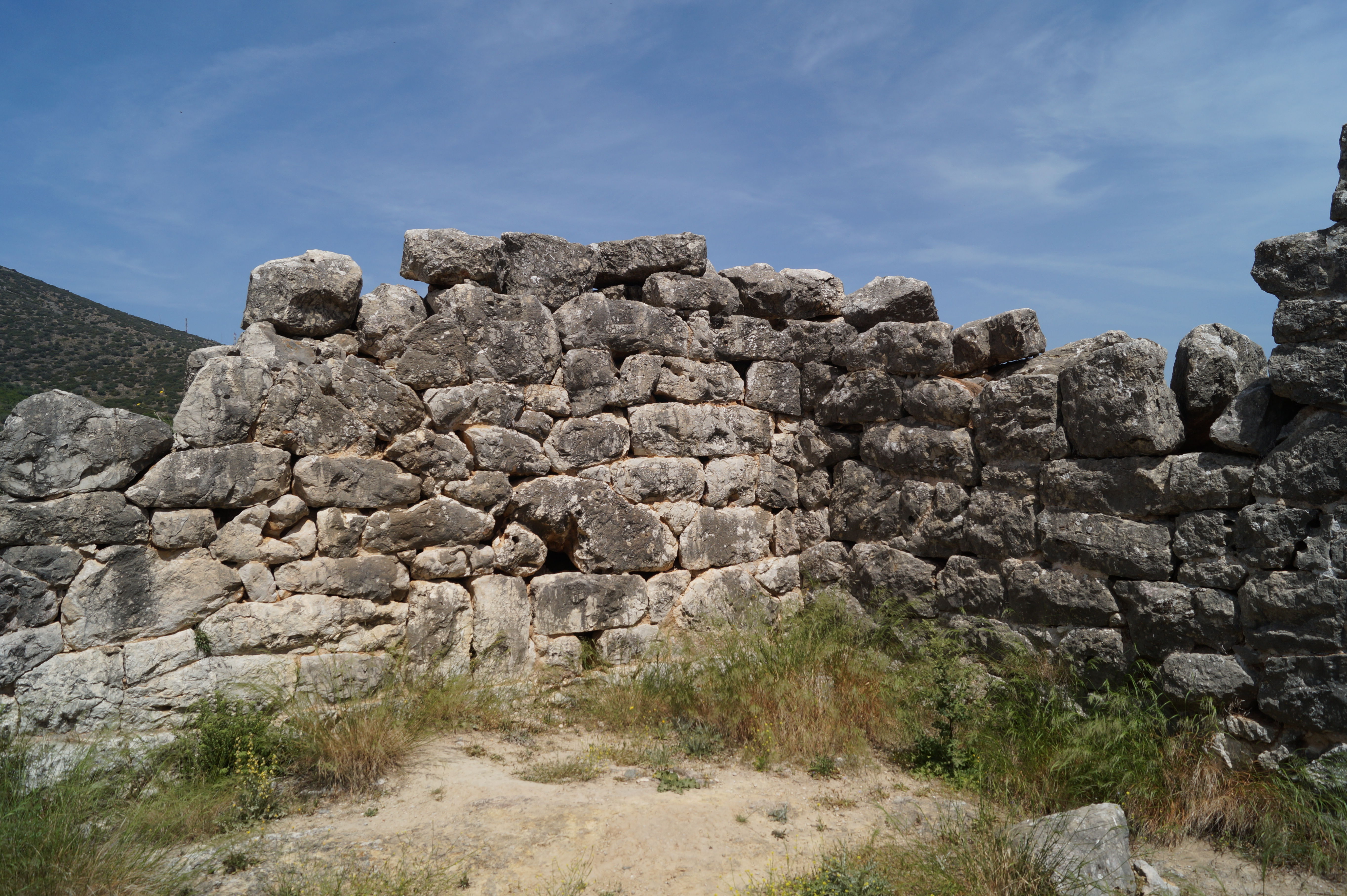 Pyramid of Hellenikon, Argolis, Greece: north corner, in the nordwest wall there is a hole to drain off water. About 3 m above there are four square holes to mount wooden beams.